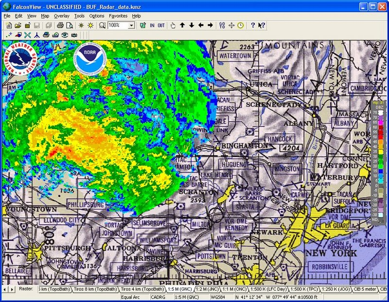 FalconView Displaying Weather Radar from KMZ